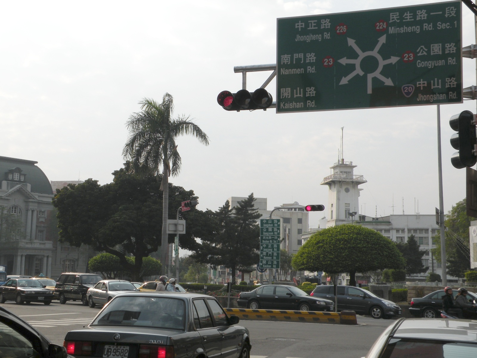 Tang De-Jhang Memorial Park, Tainan, Taiwan.